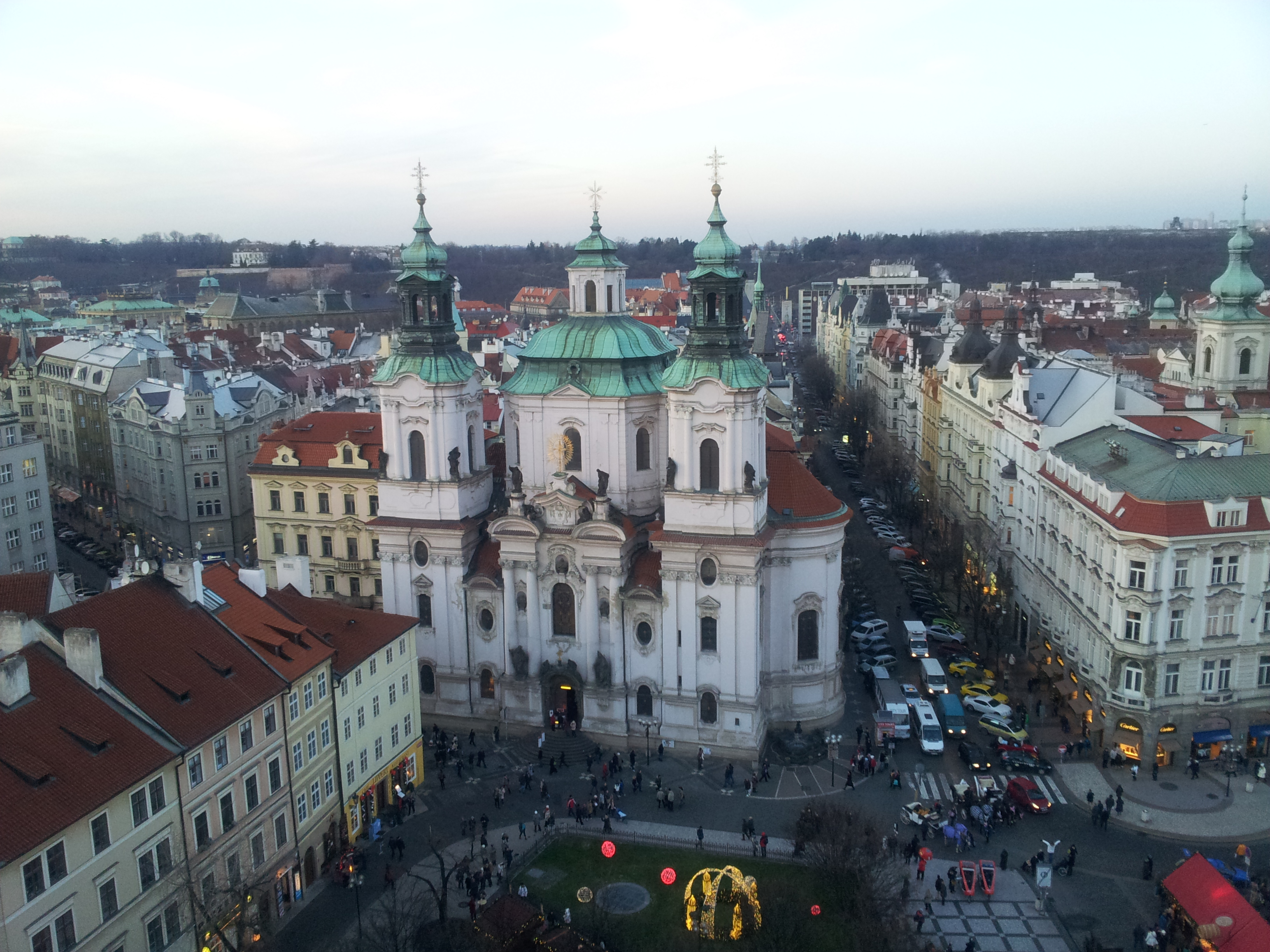 View of Church of St Nicholas of Old Town in Prague from the tower of the Astronomical Clock.